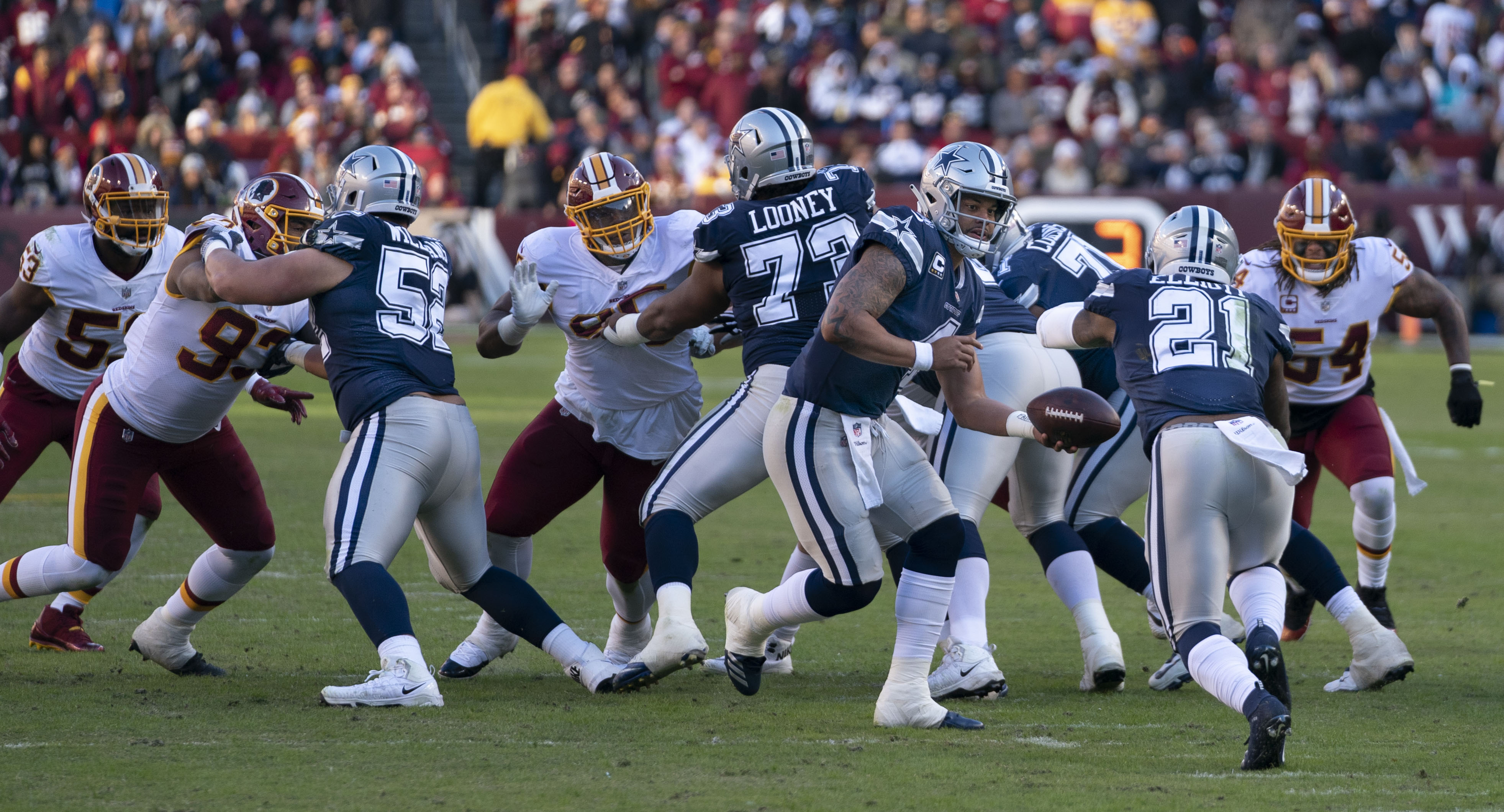 Cowboys at Redskins 10/21/18